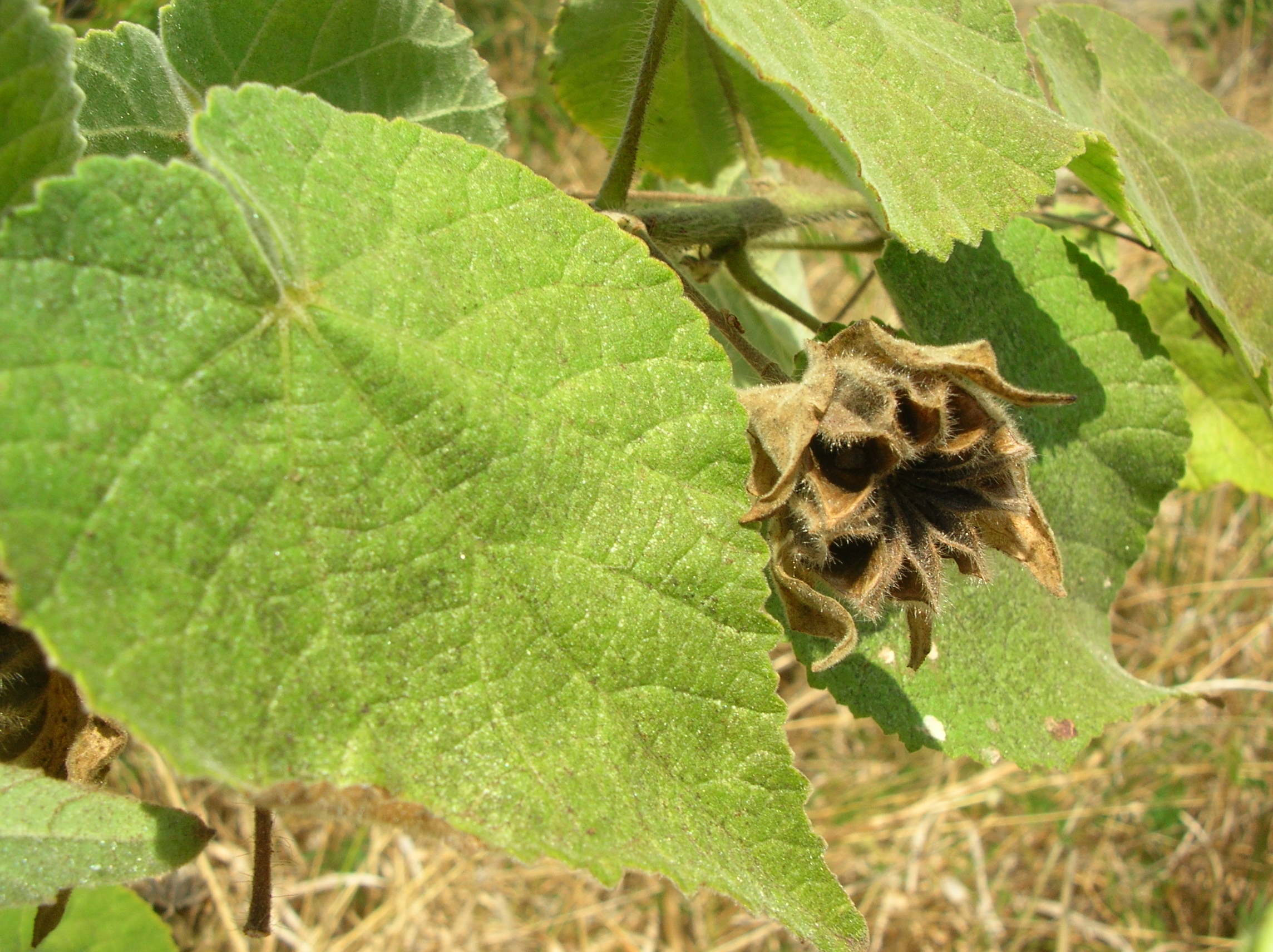 Abutilon grandifolium (seed head and leaf). Location: Maui, Kahului Airport